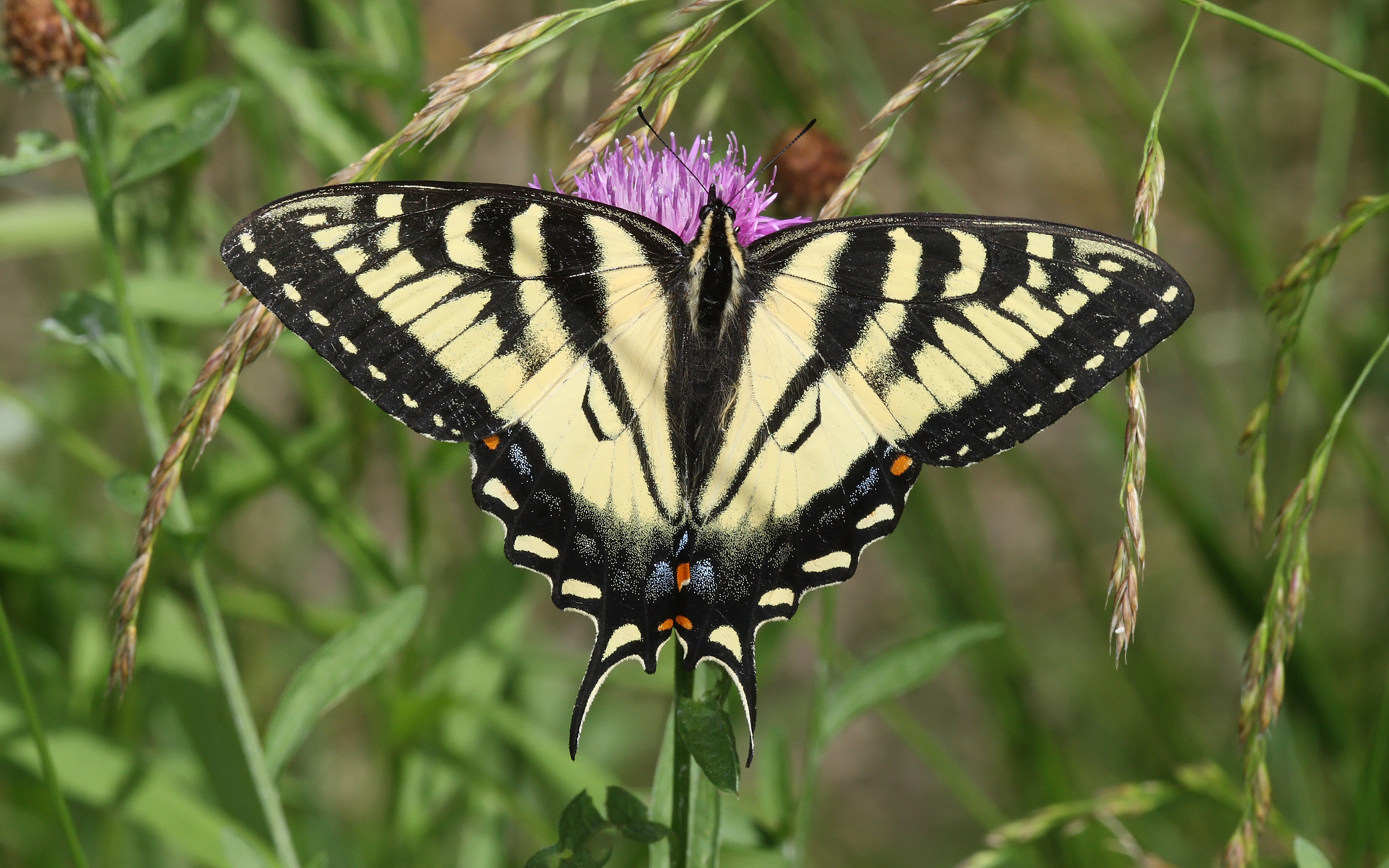 Canadian Tiger Swallowtail -- Spirit Rock Conservation Area, Wiarton, Ontario, Canada -- 2008 July